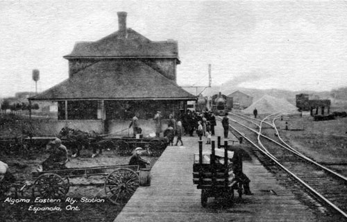 View of the Algoma Eastern Railway station in Espanola, Ontario. The mill siding is visible to the right.